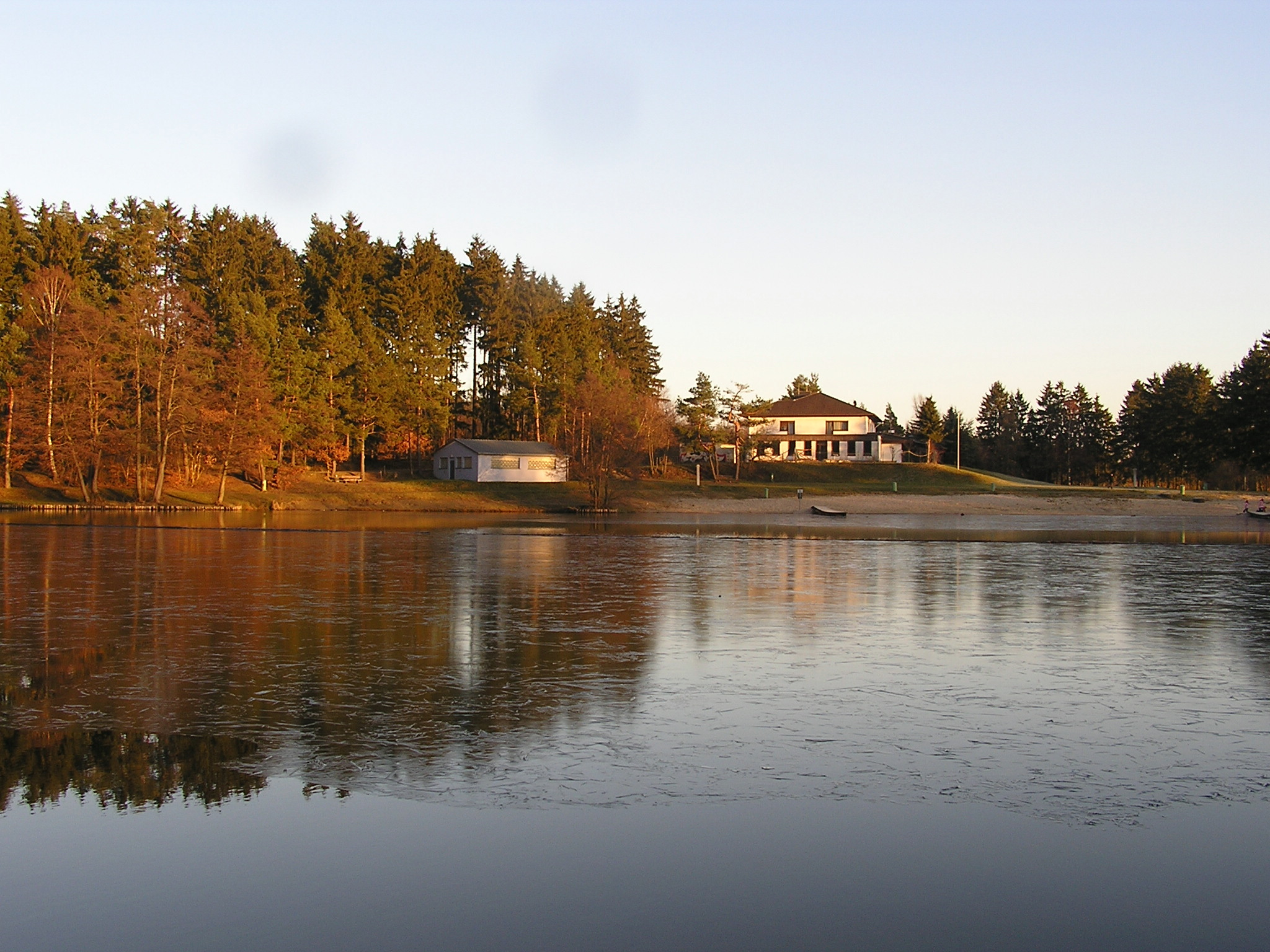 Hattsteinweiher near Usingen, Germany